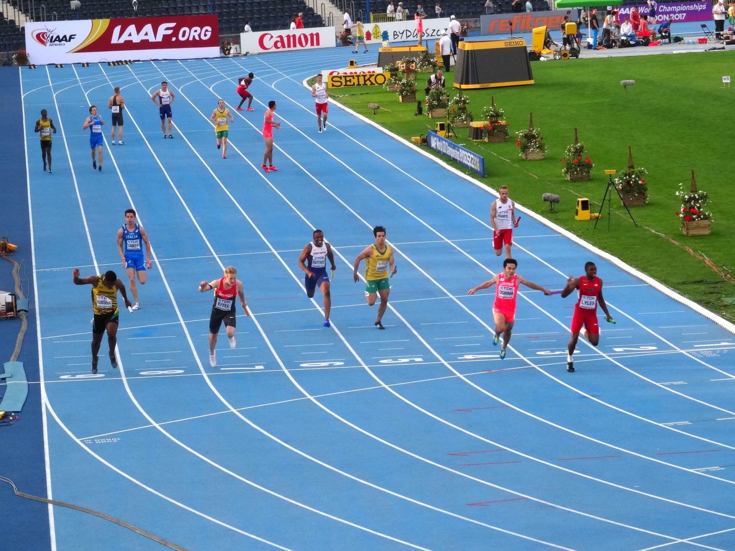 2016 IAAF World U20 Championships in Bydgoszcz, 4x100m relay men final